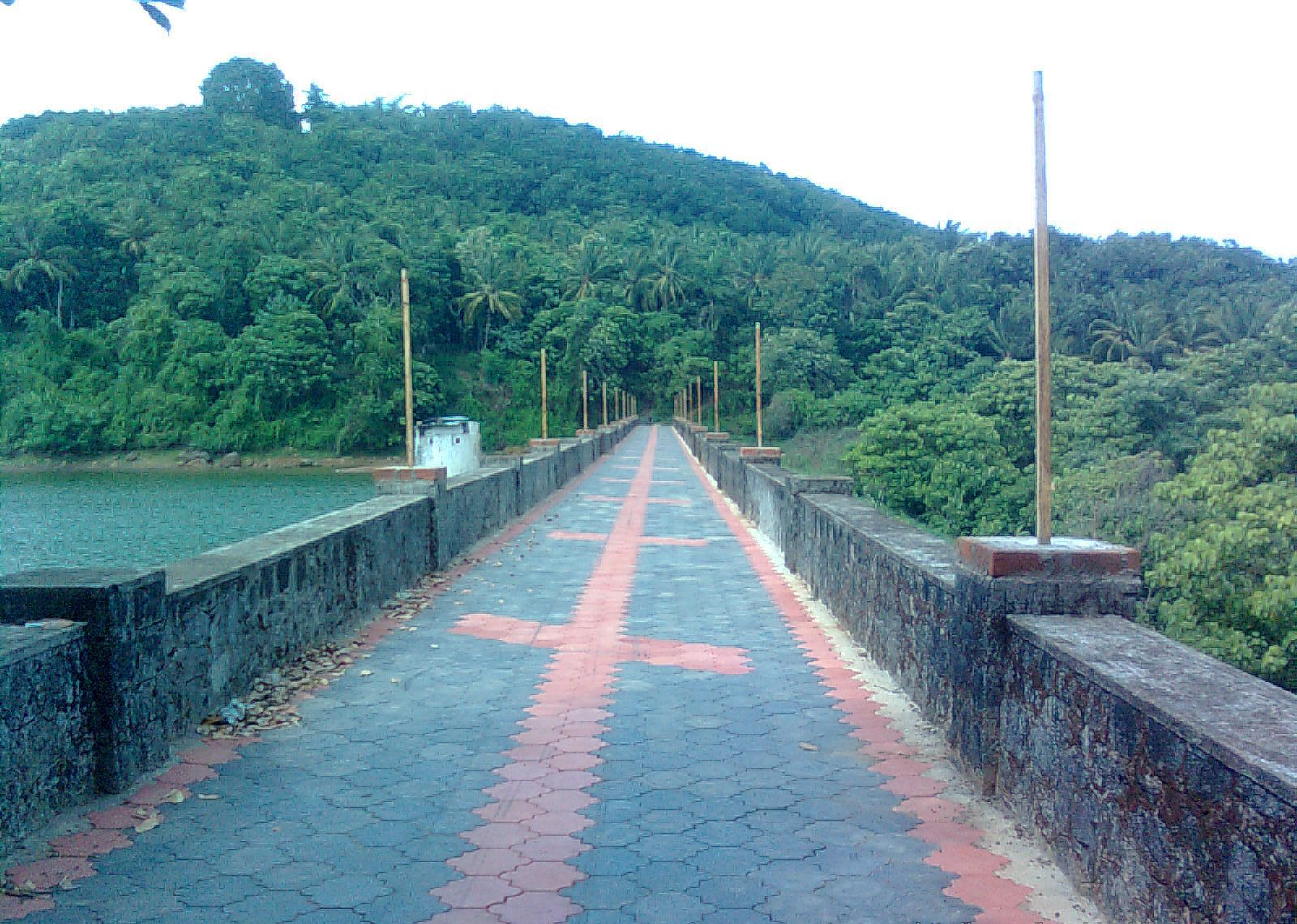 പൂമല This media file is uploaded with Malayalam loves Wikimedia event - 2.